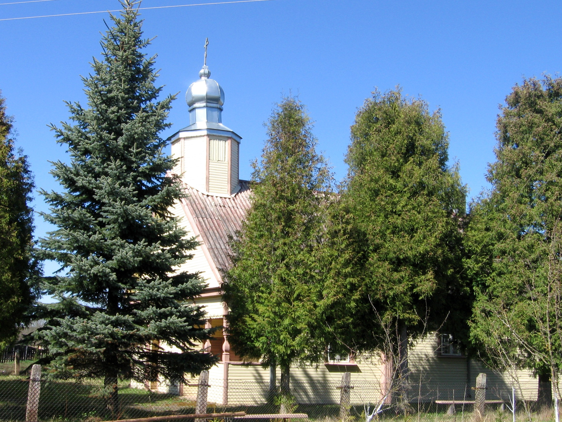 Russian Orthodox church of the Old Believers in Baltromiškės, Jonava district, Lithuania